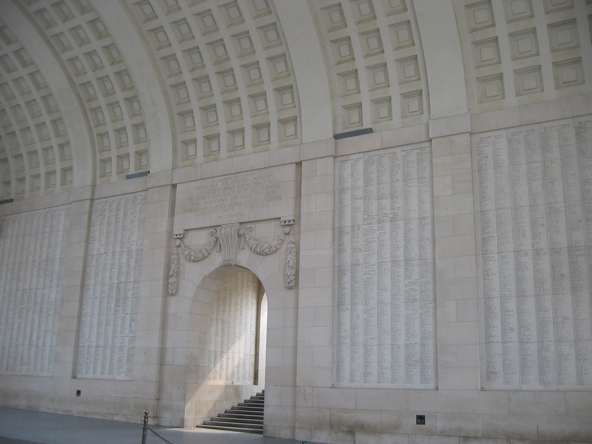 Picture of the interior of the Menin Gate, Ieper (Ypres) in Belgium. Picture by Tim Bekaert.